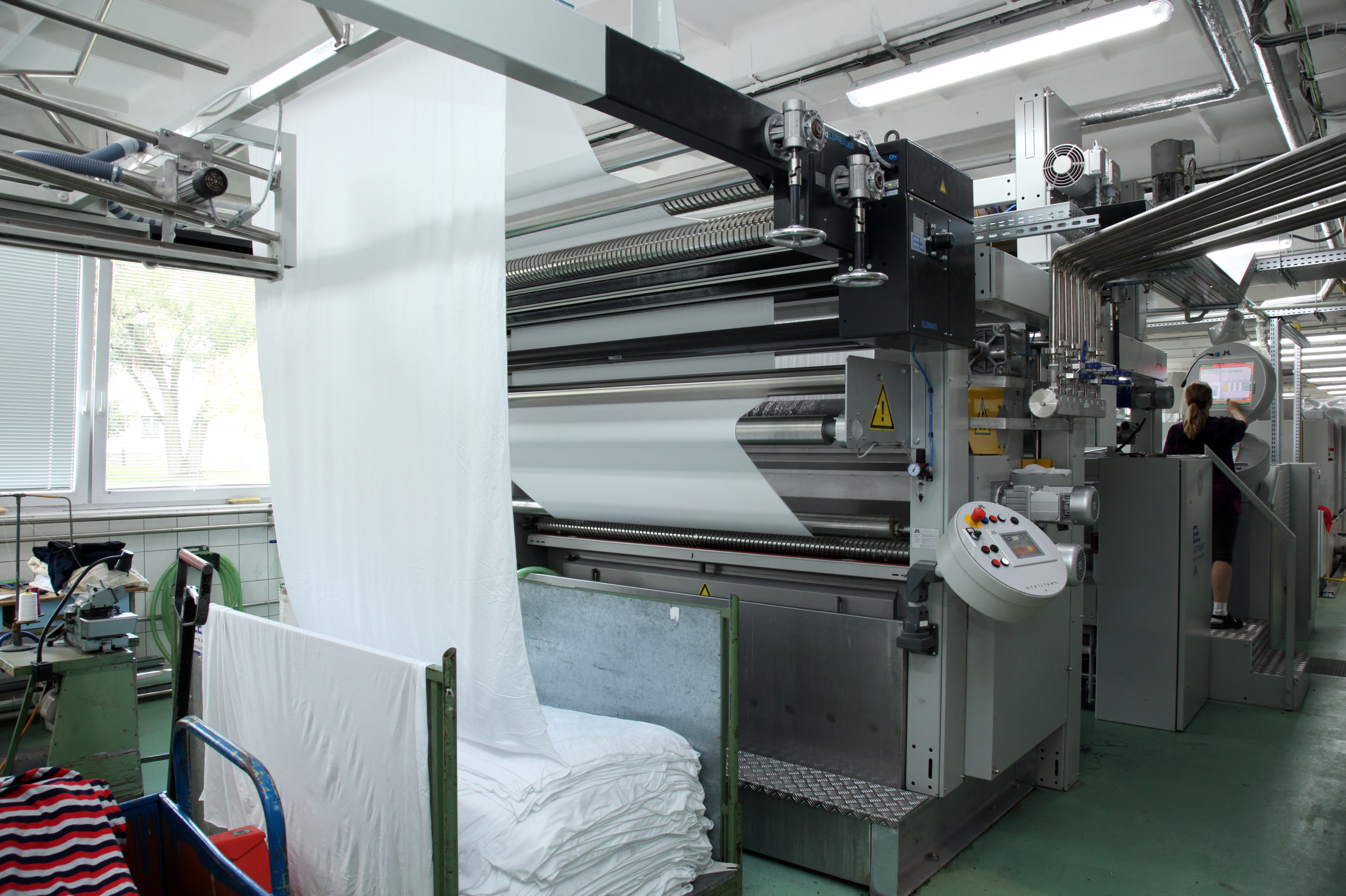 Pleas_barevna